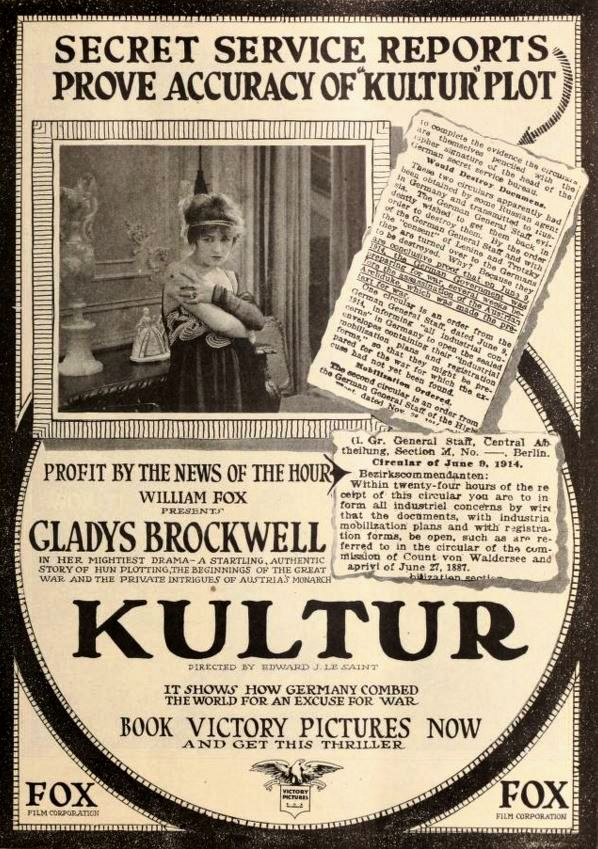 Advertisement for the American drama film Kultur (1918) with Gladys Brockwell, on page 11 of the October 12, 1918 Exhibitors Herald.